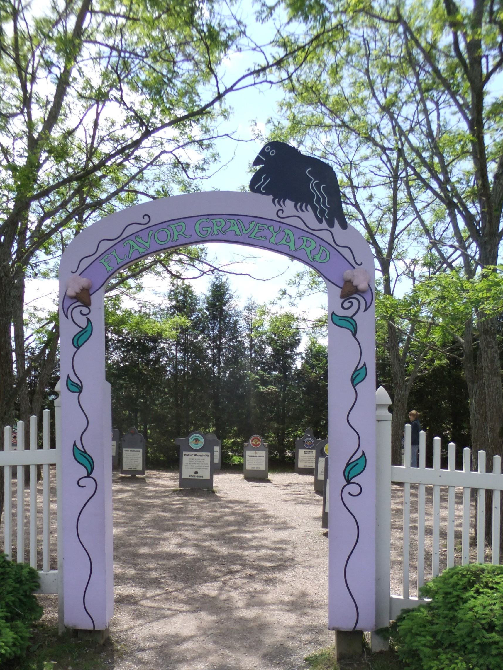 Ben and Jerry's Flavor Graveyard, Waterbury, Vermont, USA